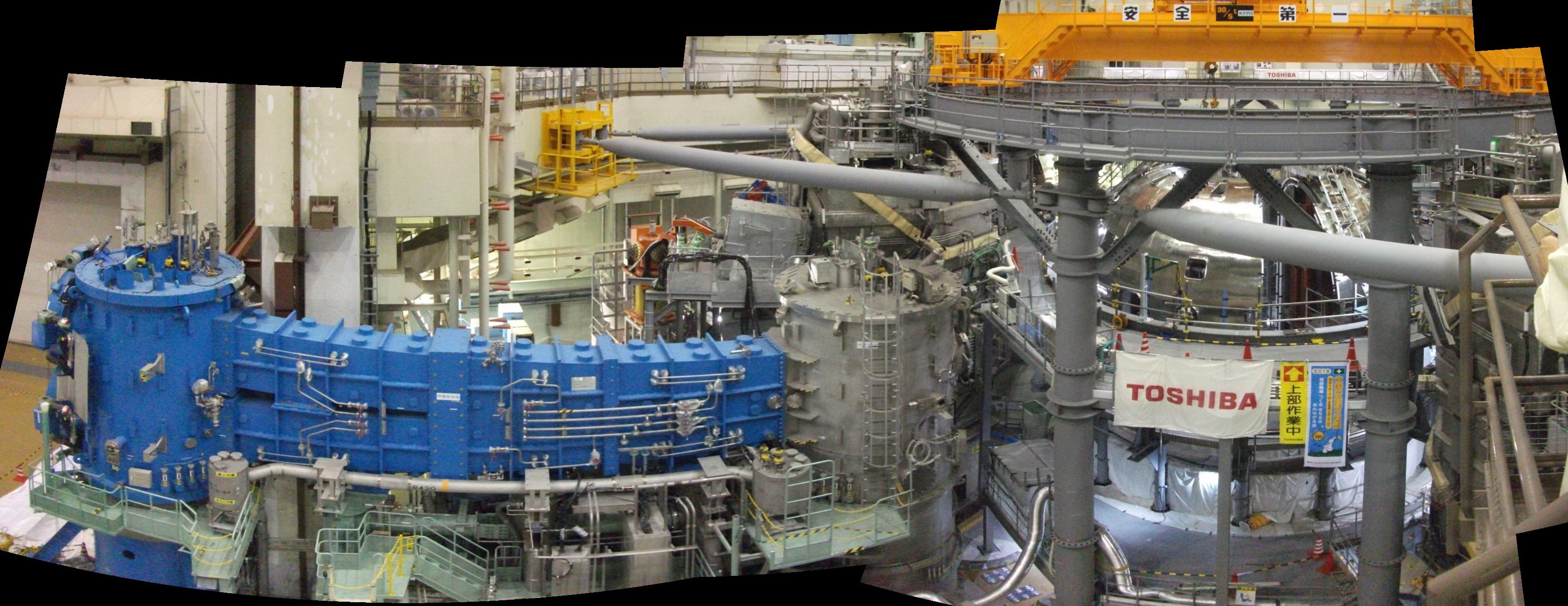 JT-60 SA Tokamak Naka (Japan) September 2016